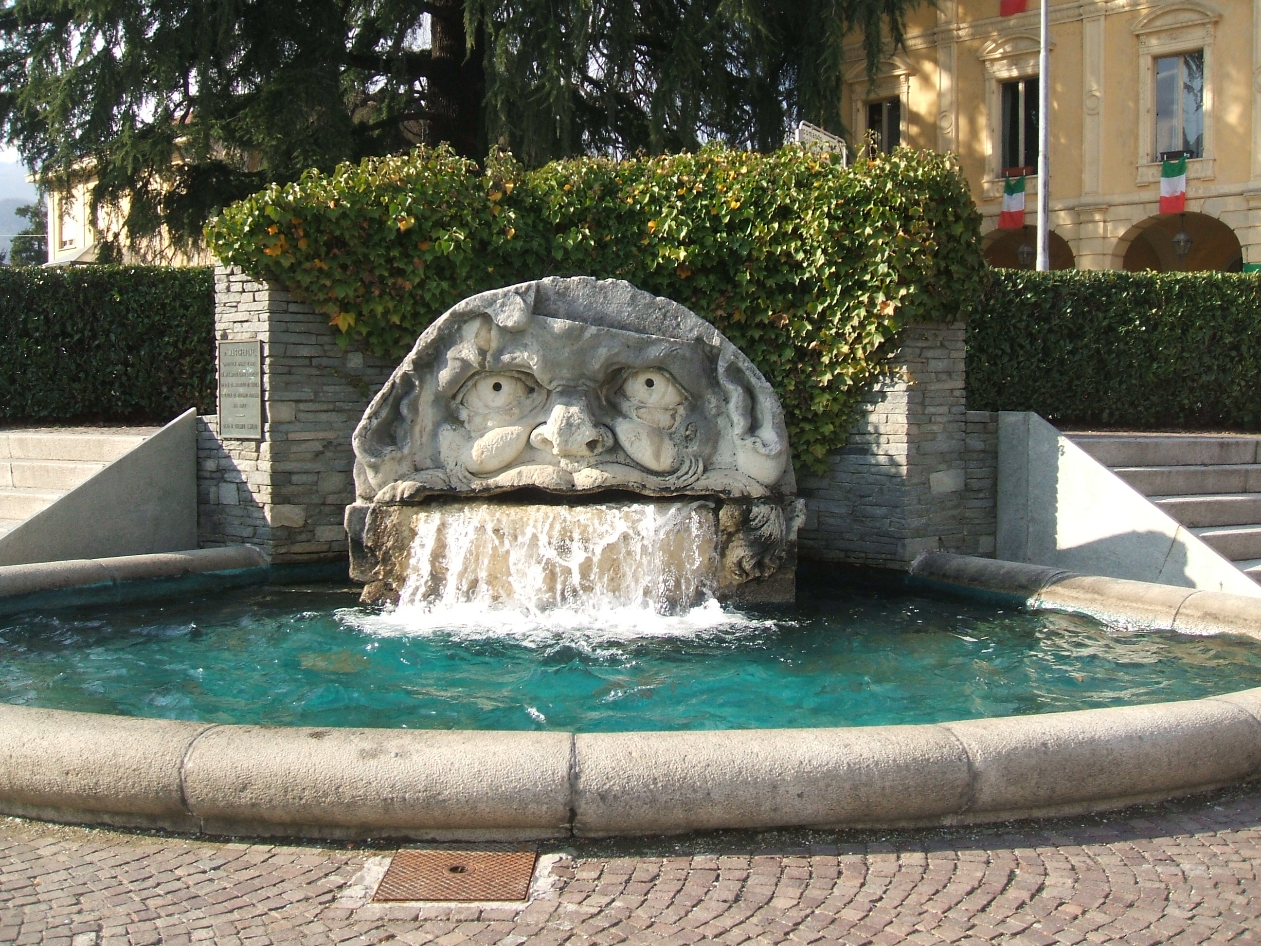 Mascherone fountain